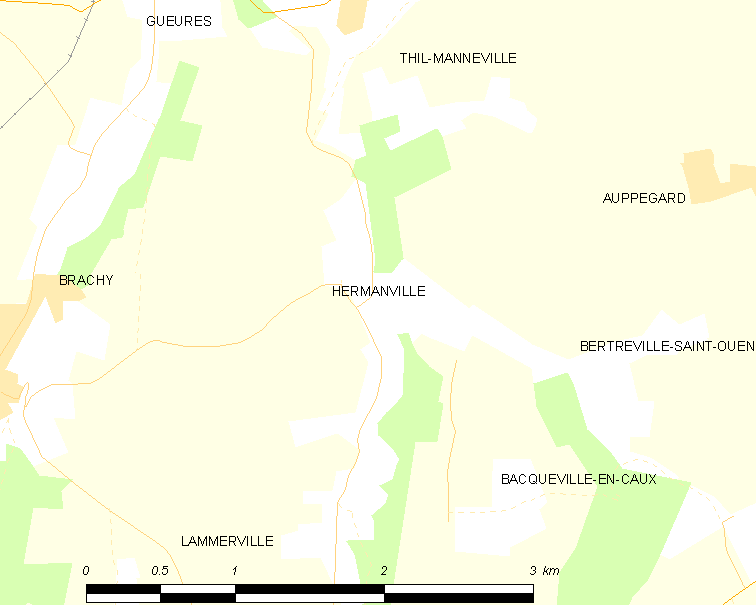 Map of French municipality Hermanville